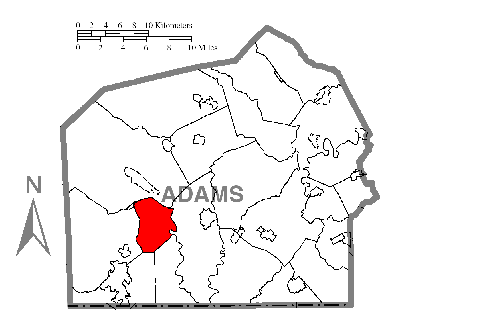 A map of Adams County showing Highland Township, Pennsylvania (alternate) highlighted on the map.